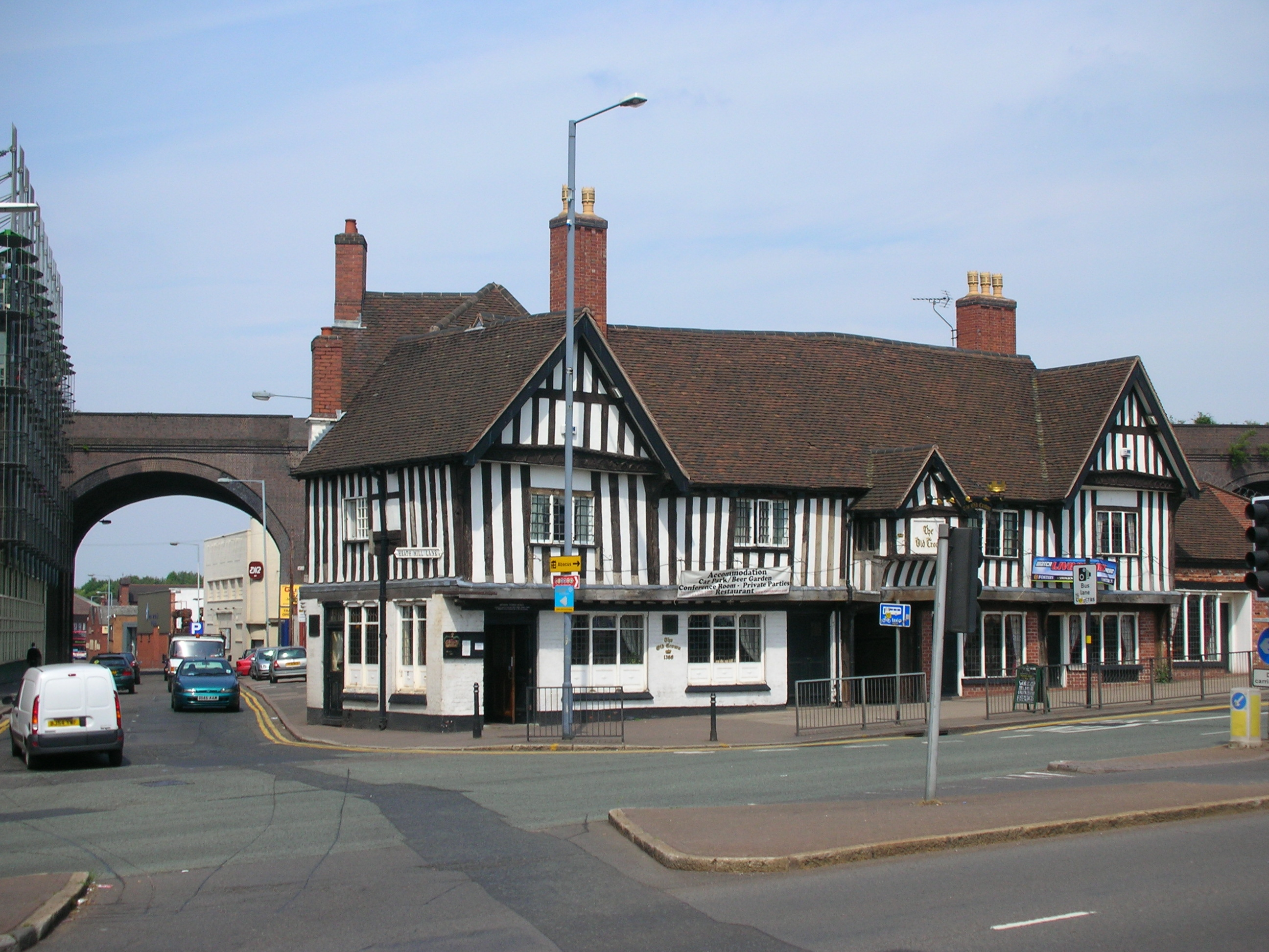 The Old Crown, Birmingham, England. Photographed by me.